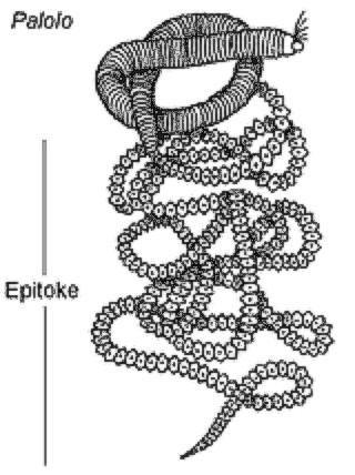 Diagram of Palolo Worm